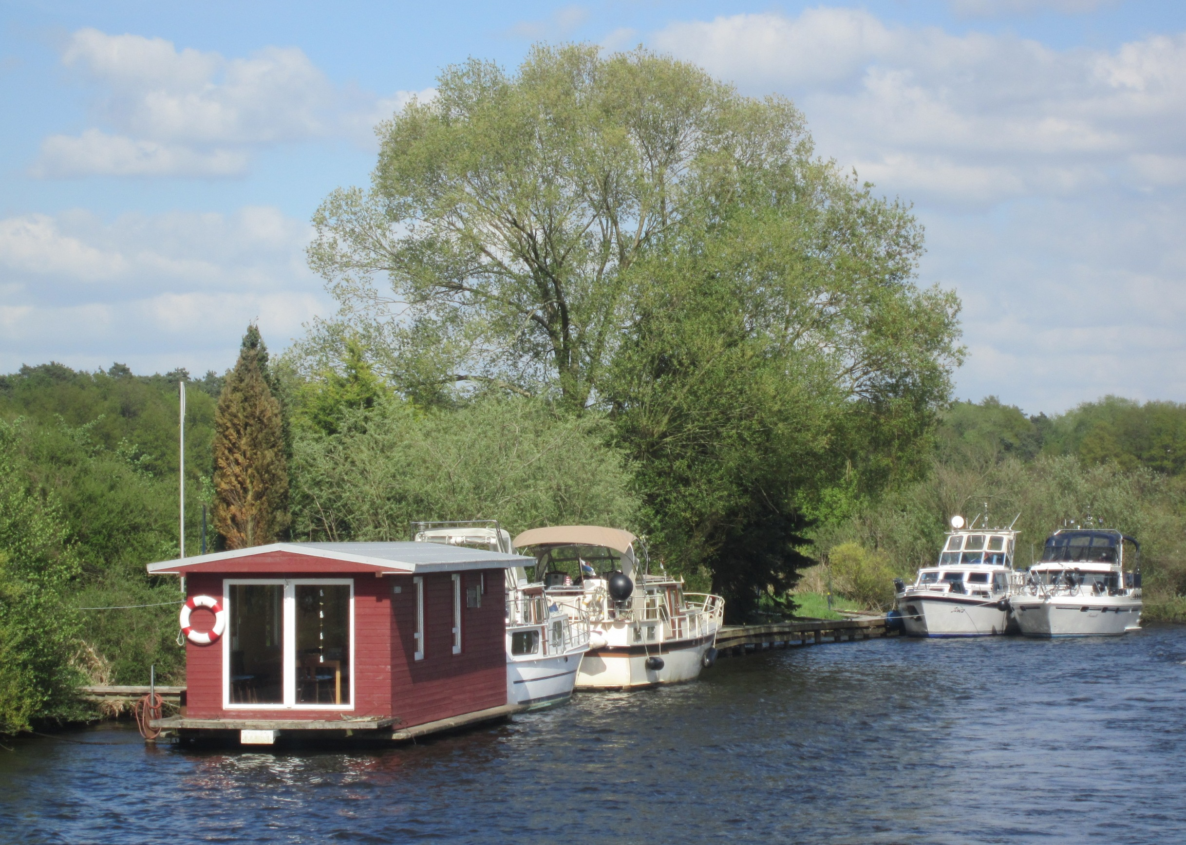 River Ems south of Lingen